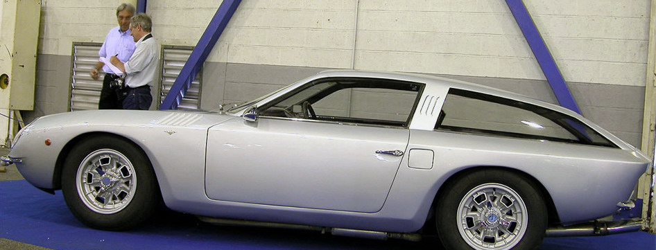 Lamborghini Flying Star